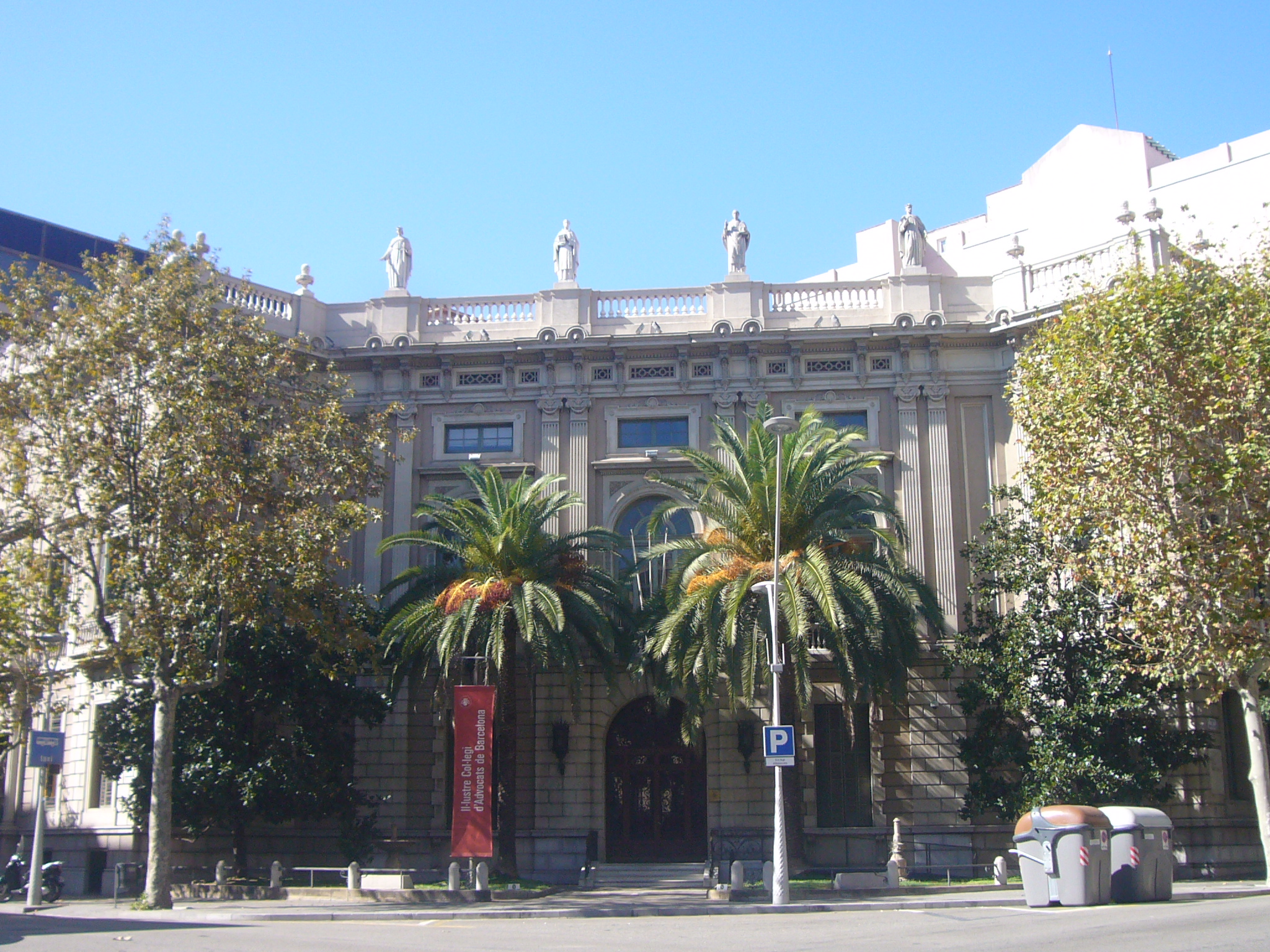 Palau Casades, head office of Col·legi d'Advocats de Barcelona